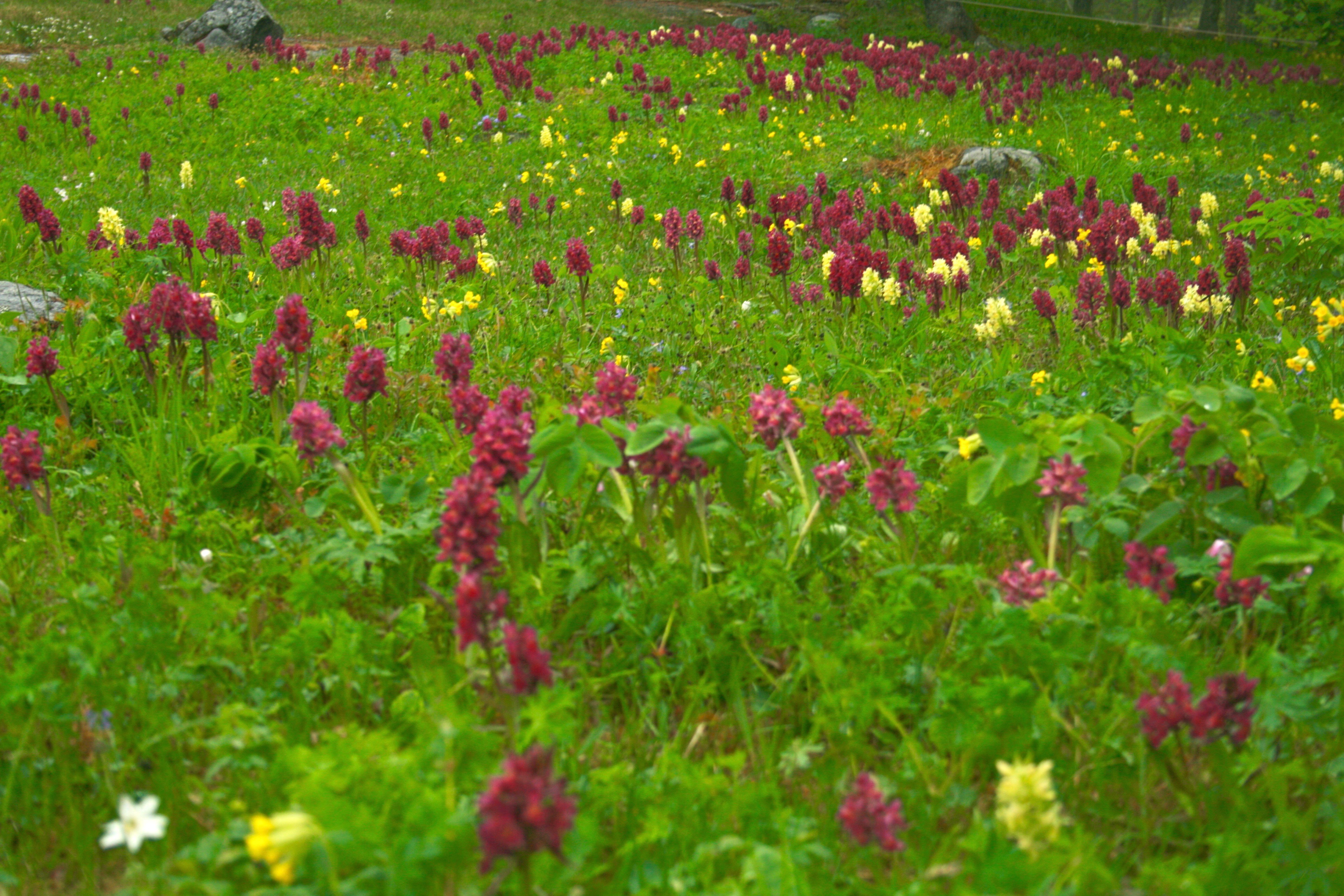 Field of Dactylorhiza sambucina orchids in Ängsö national park.